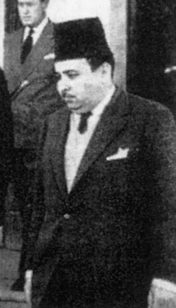 Mustafa Ben Halim, prime minister of Libya (1954-1957).